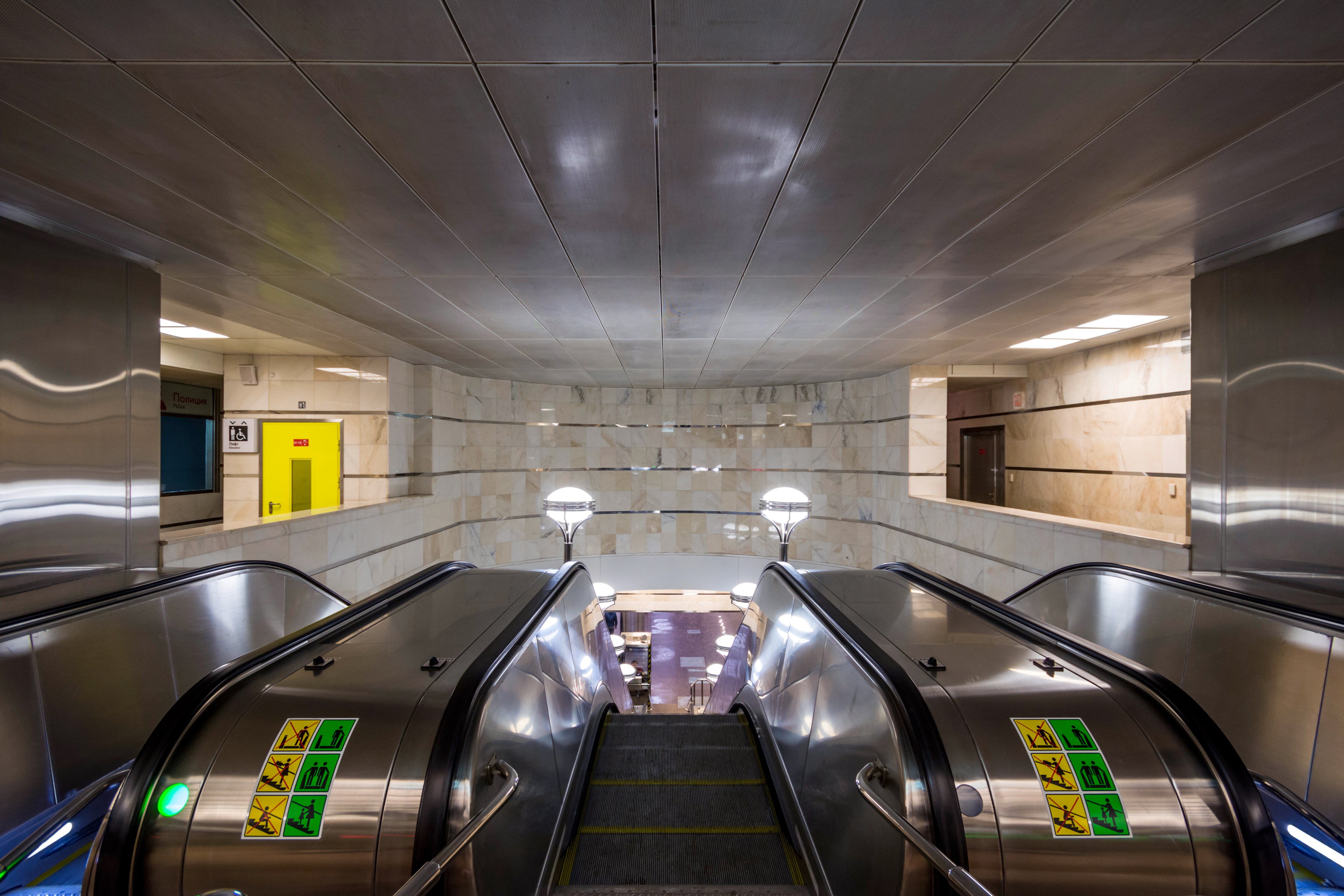 Kotelniki Station of Moscow Subway